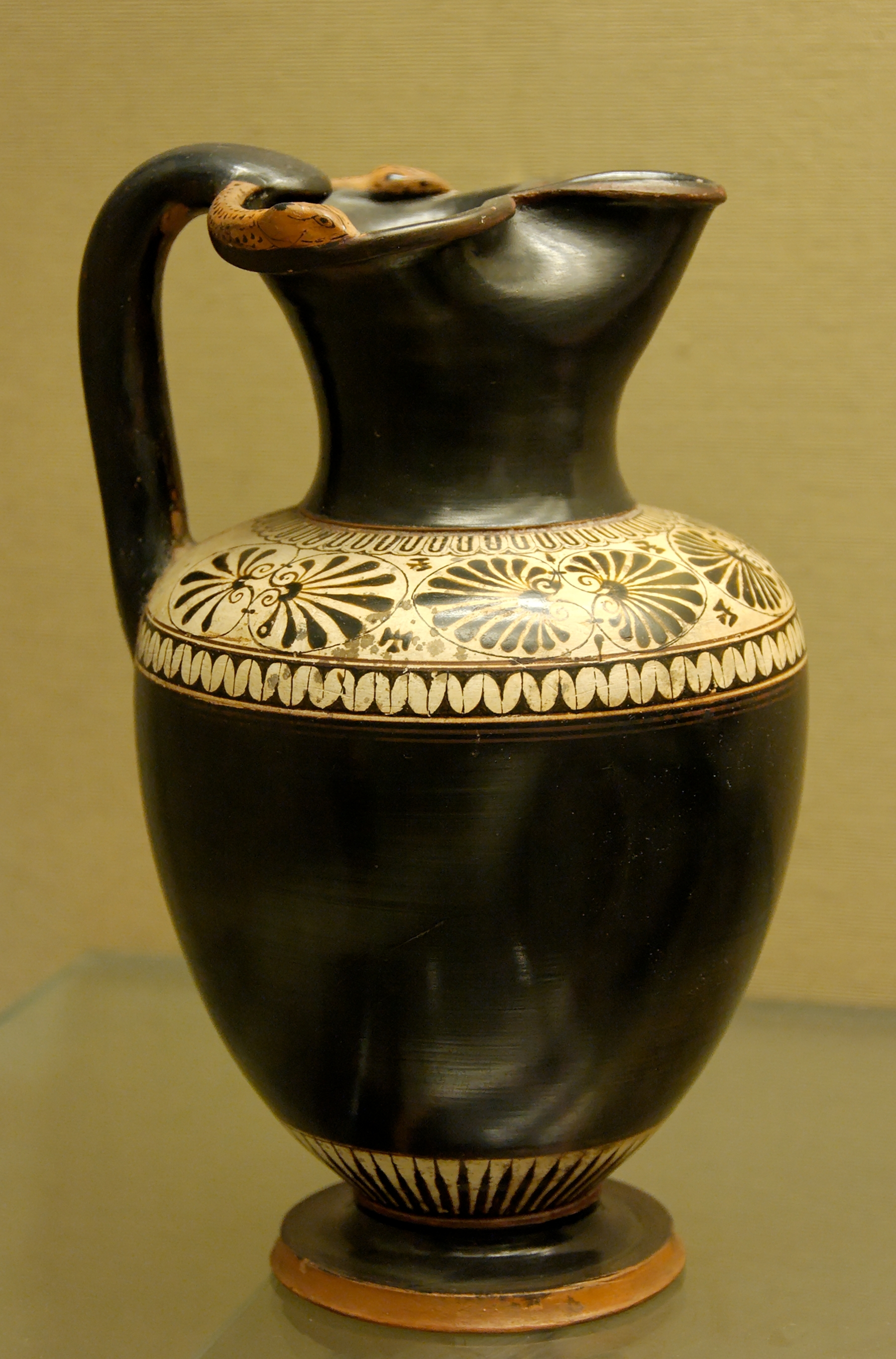 Black-glaze oinochoe with white-ground shoulder decorated with palmettes and flying birds. From Vulci.